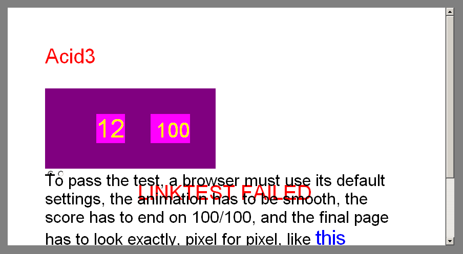 Acid3 test as rendered by Internet Explorer 6. The test score is Nothing